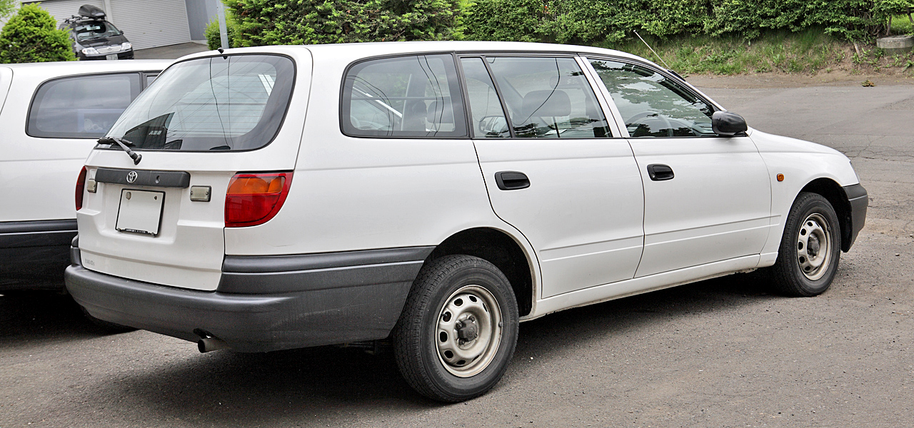 Toyota Caldina Van